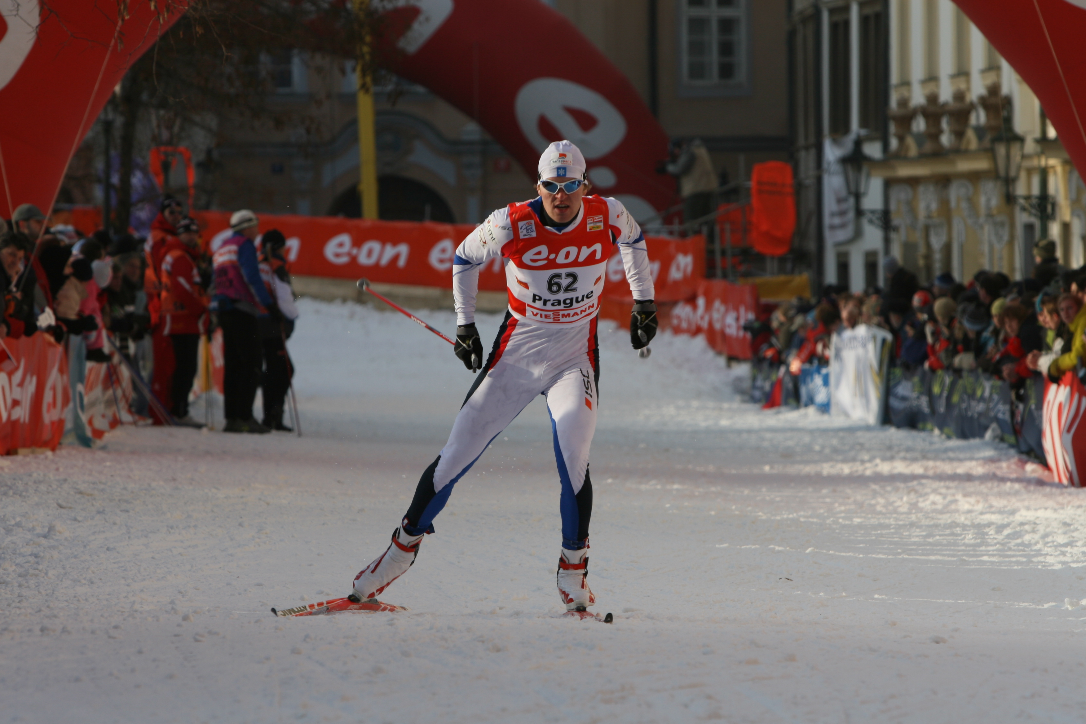 Peeter Kümmel at Tour de Ski in Prague